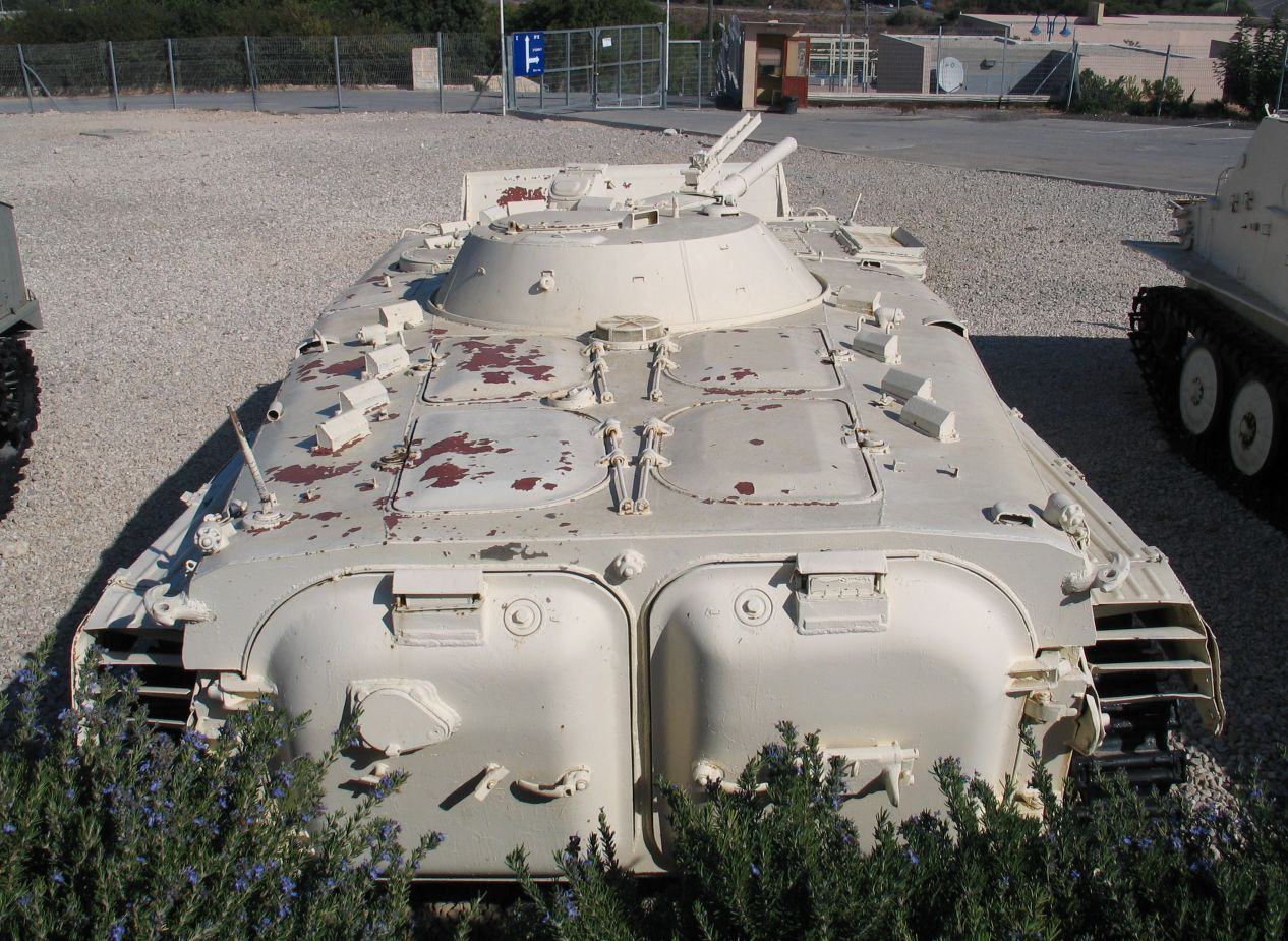 Description: BMP-1 IFV in Yad la-Shiryon Museum, Israel. 2005. Source: Photo by me, User:Bukvoed